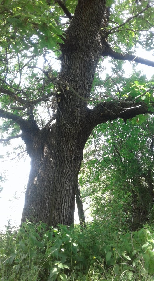 Oak Tree (Quercus) in Bukosh - Vushtrri